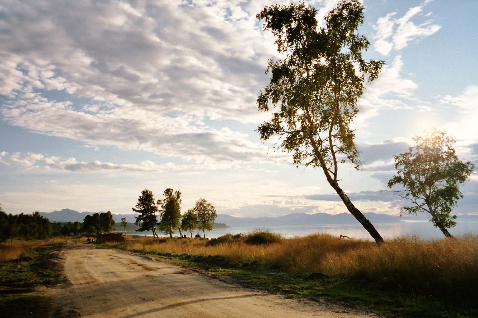 Countryside road. Kedrovaya, Baikal. Nata's shot. #35 on Explore on November 8, 2006